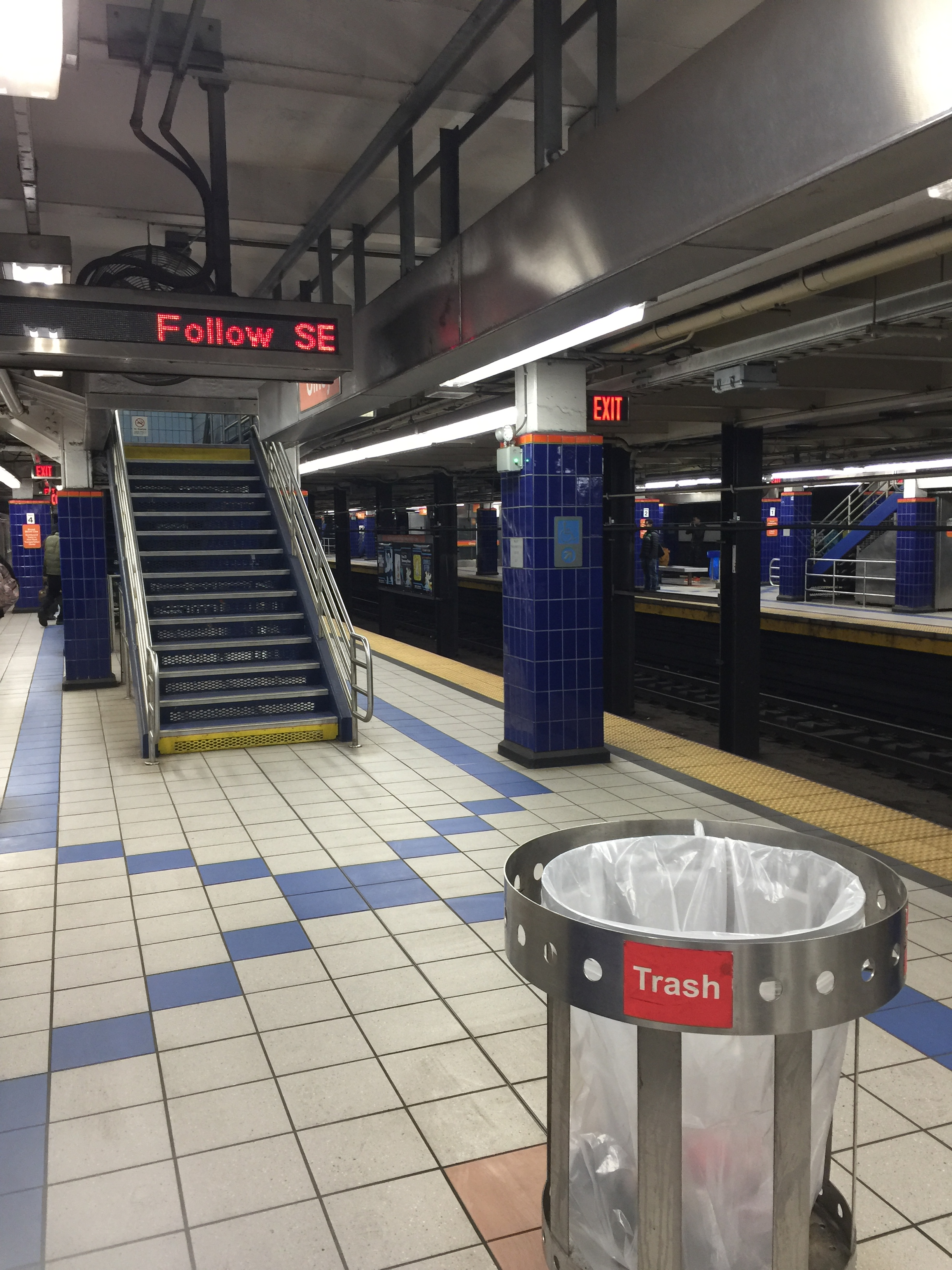 Olney